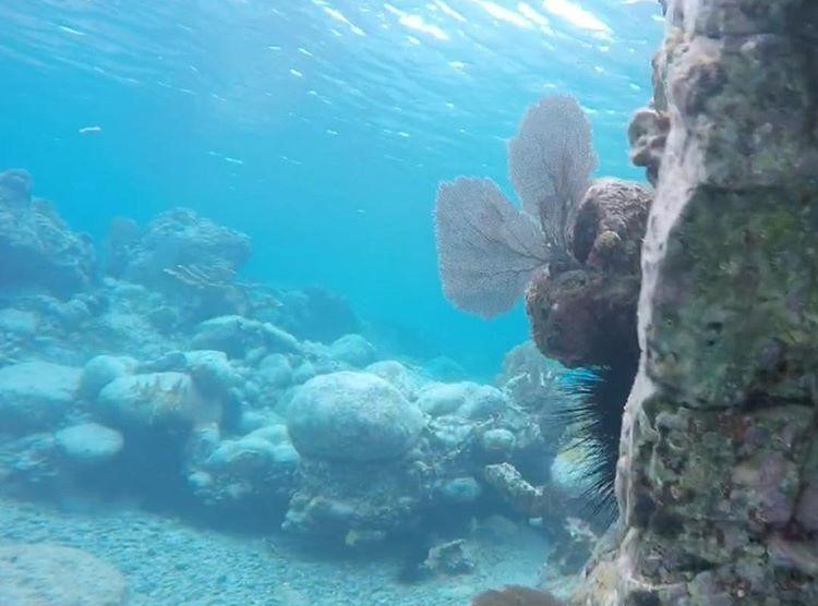 Picture of carols taken at St.Thomas